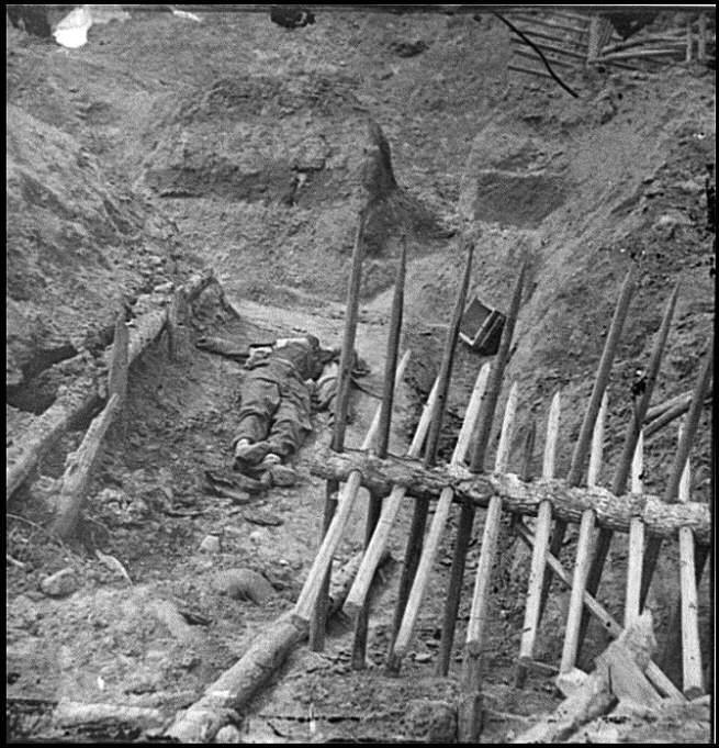 Title: Petersburg, Va. Dead Confederate soldier, in trench beyond a section of chevaux-de-frise Abstract: Selected Civil War photographs, 1861-1865 (Library of Congress) Physical description: 1 negative (2 plates) : Notes: War casualties.